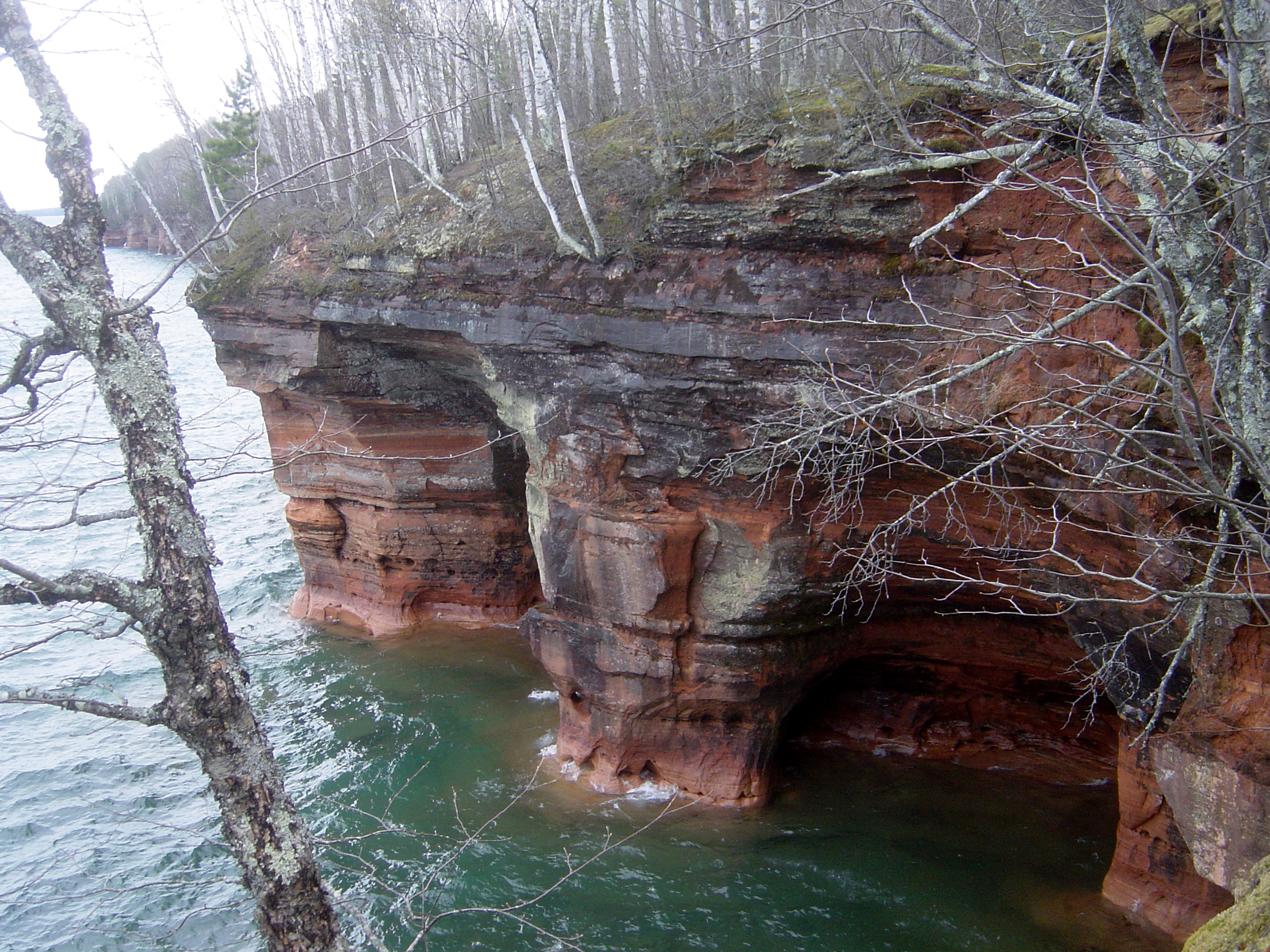 Squaw Bay Sea Caves, part of the Apostle Islands National Lakeshore, on the mainland near Cornucopia, Wisconsin)